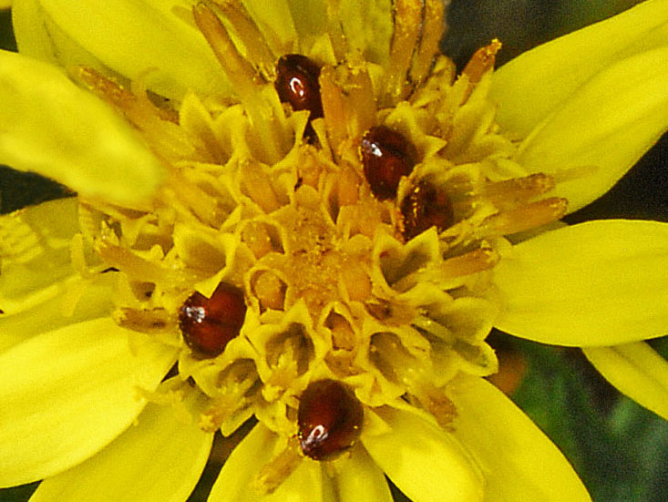 A Group of Stilbus testaceus feeding on a flower of Dittrichia viscosa. Arquata, Alessandria, Italy